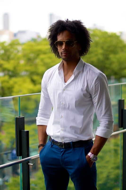 Phekoo in Toyko